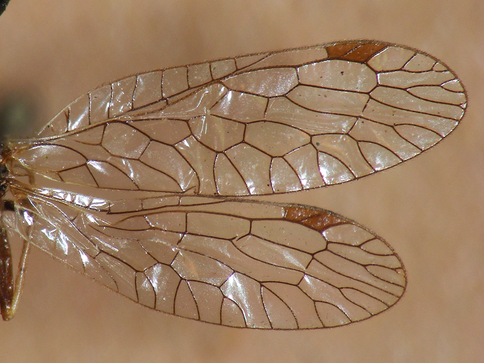 Snakefly Raphidia ophiopsis Male, from the entomological collection of Naturalis Biodiversity Center. Tags read: Doorwerth 17-6-'54 v.d.Wiel; coll. J.A.W. Lucas acq. 1984